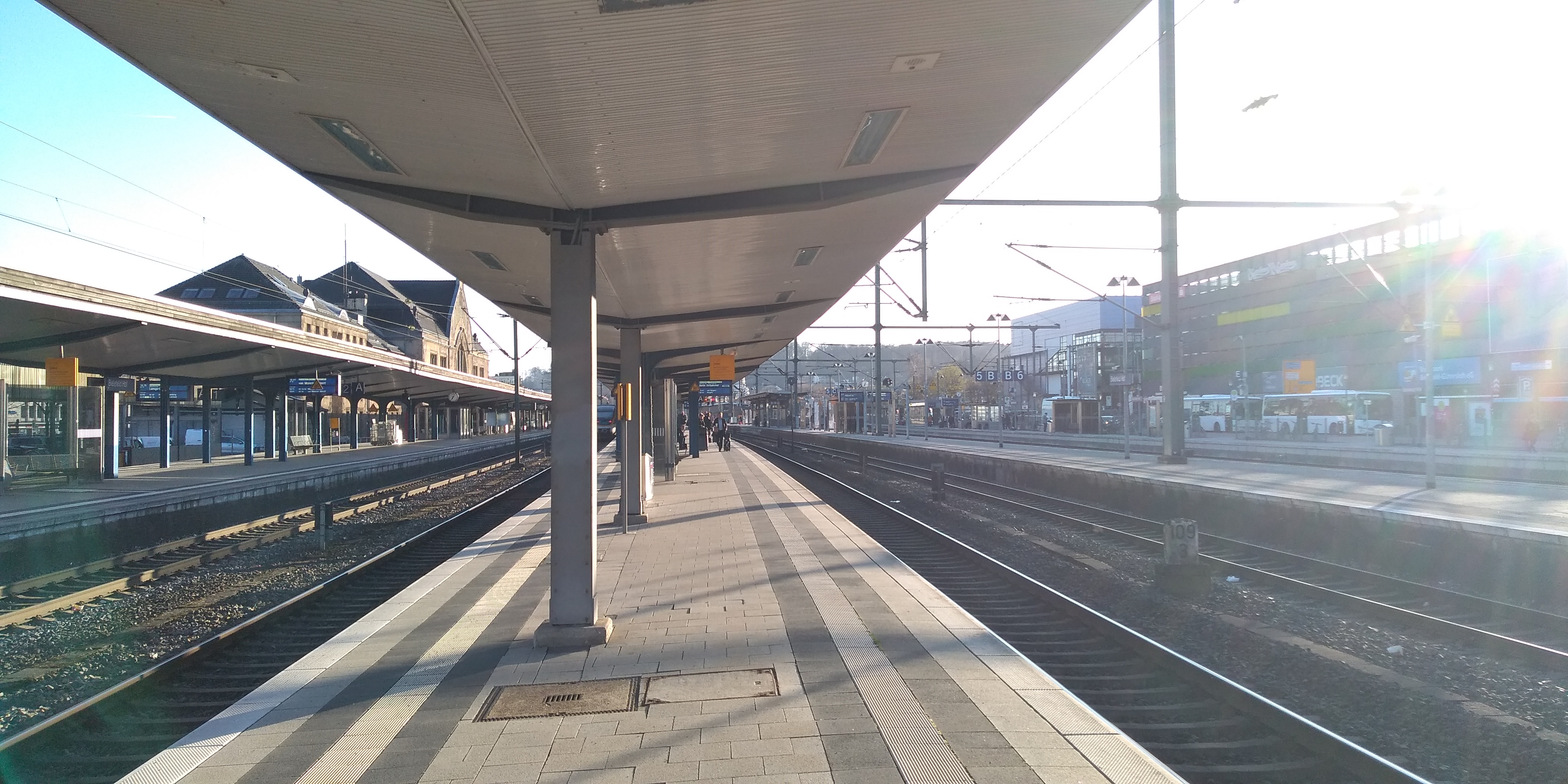 Bielefeld maintrainstation photographed from inner at track 3,4- at the evening time.